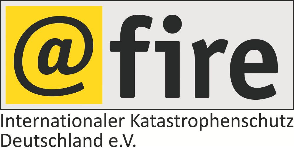 Logo of @fire